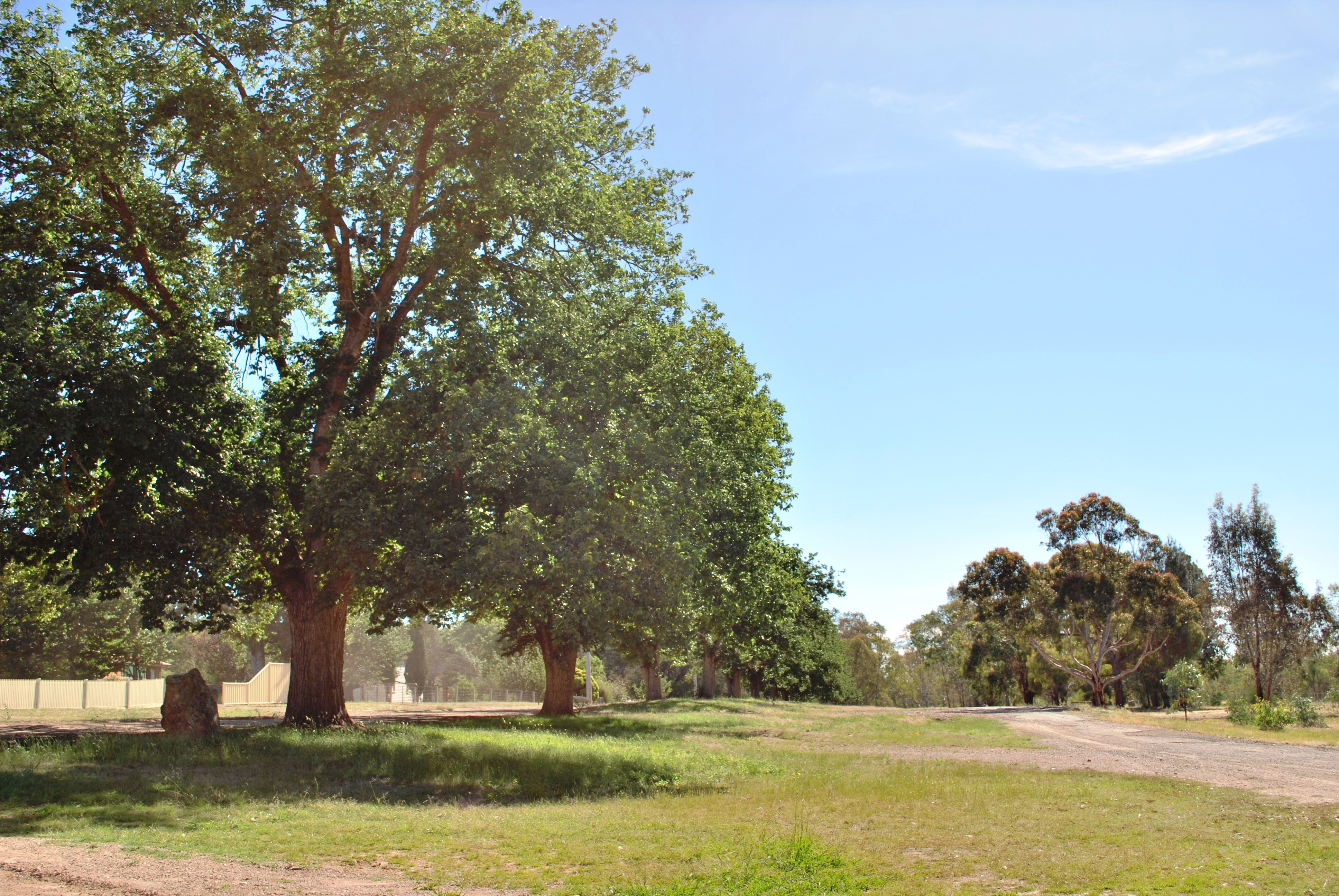 Historic town site of Bonnie Doon, Victoria